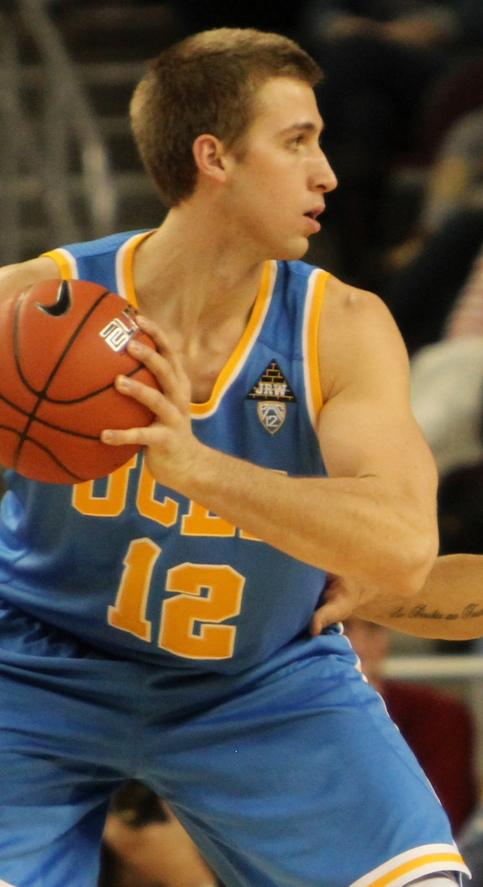 USC vs. UCLA Men's Basketball at Galen Center on Jan. 15, 2012.